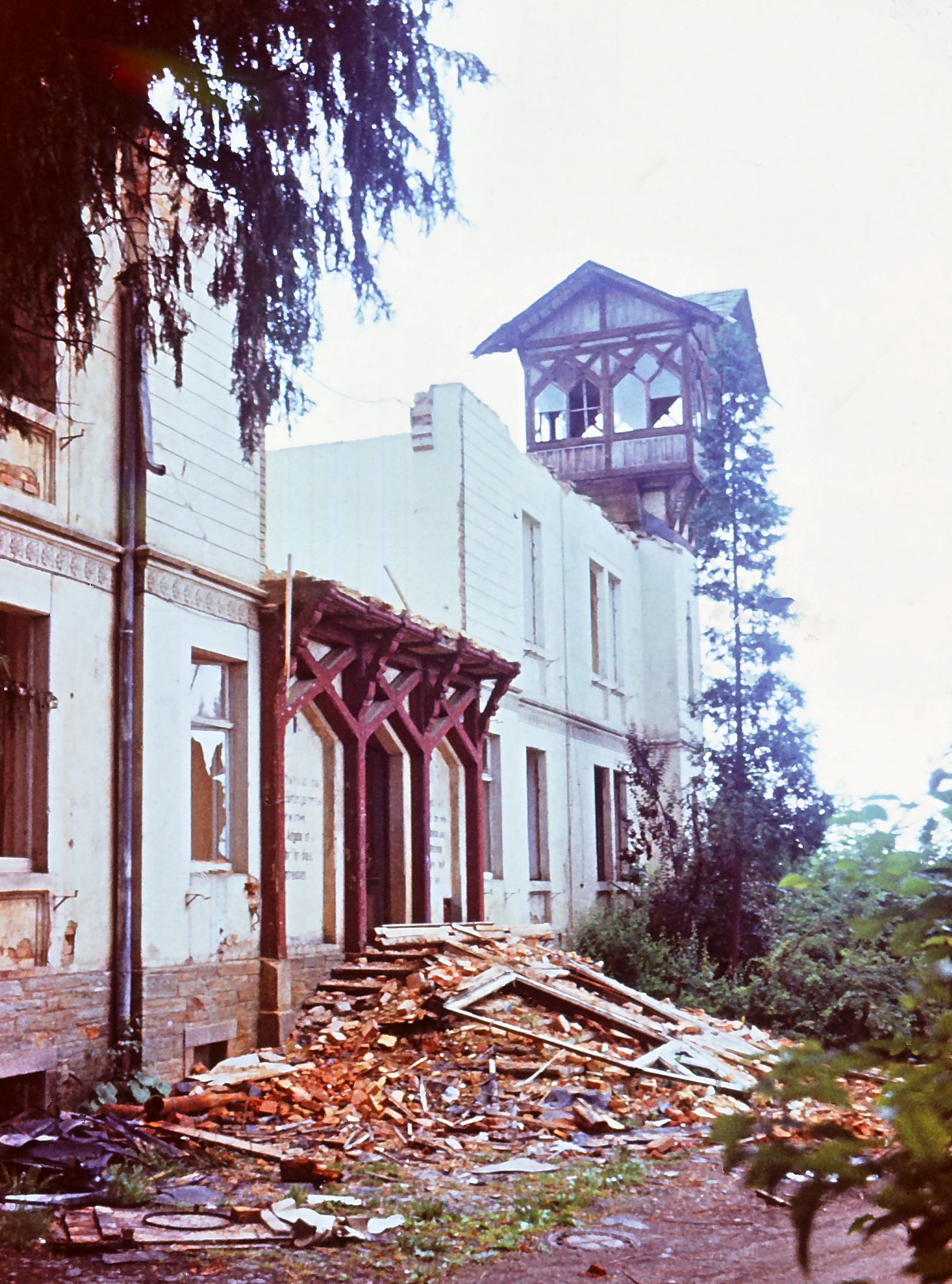 Demolition of the hunting lodge in Waldhaus near Greiz